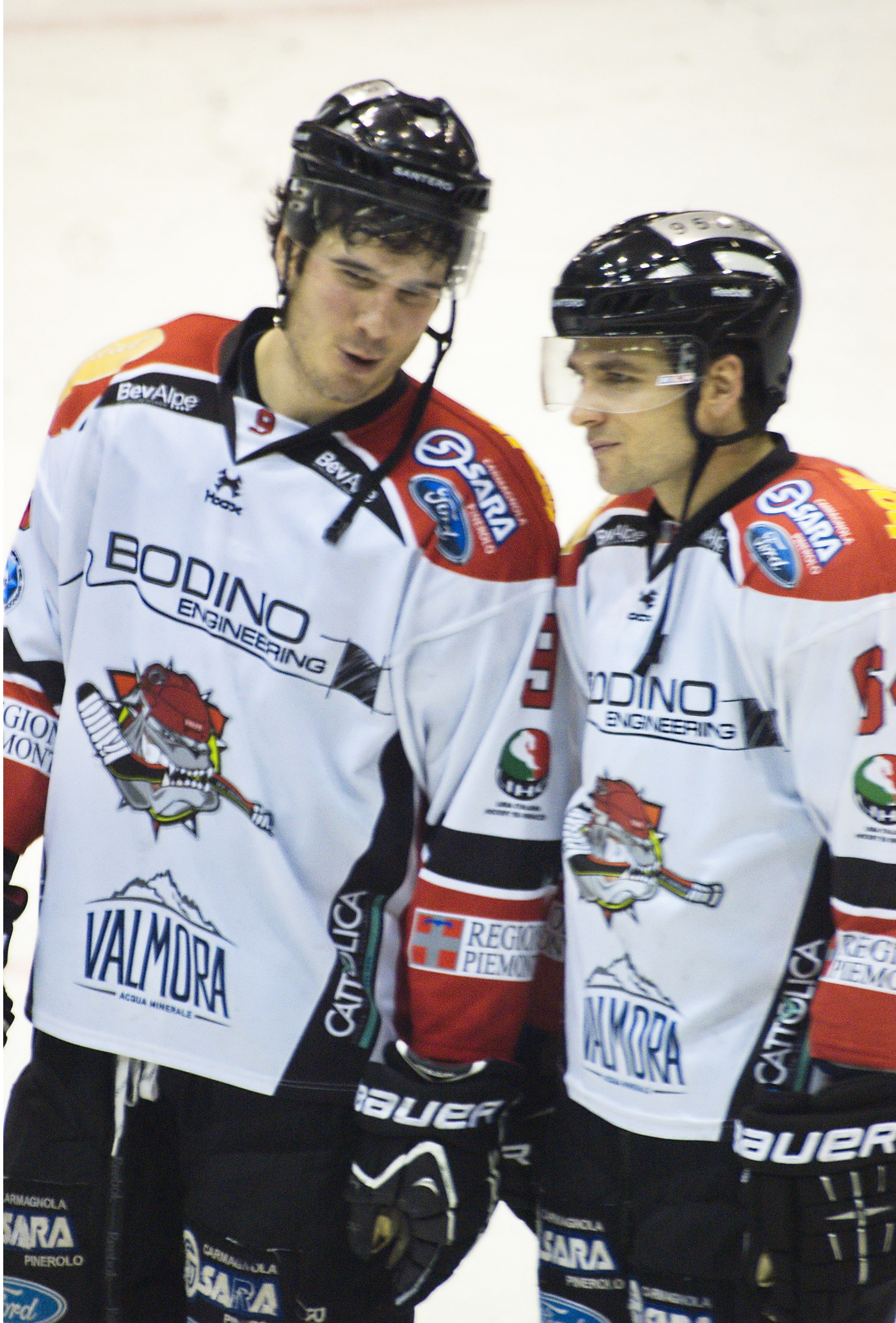 2012-2013 Coppa Italia semi-final between HC Valpellice and HC Val Pusteria played in Torino on 12 January 2013